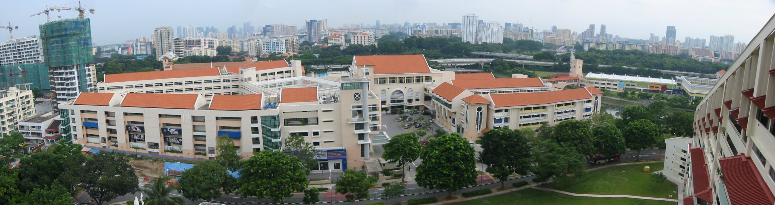 A top view of St. Andrew's Secondary School (left) and St. Andrew's Junior School (right). The multi-coloured grandstand of the running track of St. Andrew's Junior College (top right) can be seen as well. Taken by 리지강.wa.au on 12 July 2007 and photos merged with Canon Utilities PhotoStitch Version 3.1